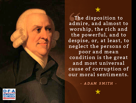 PRESIDENTIAL PRIMARIES A FRAUD BY THE RICH & POWERFUL OF AMERICA 105,868 views American President is Elected by Foreign Money Everyone knows that American Israel Public Action Committee (AIPAC) and its numerous losely affiliated PAC’s and members committed to Israel will take out any sitting Congress member or Senator if they DARE speak out against Israel. If someone does not tow the Israelie line when running for office, AIPAC or one of its many affiliate PACs or members will give financial support to the candidate who will. AIPAC and its affiliates working for a foreign country Israel can give unlimited financial contributions to any US candidate for any public office. America has lost its democracy to a foreign entity Israel and its supporters. What if India, China, Russia, or Pakistan started delivering billions to Presidential or Congress candidate of their choice? READ THE COMPLETE STORY